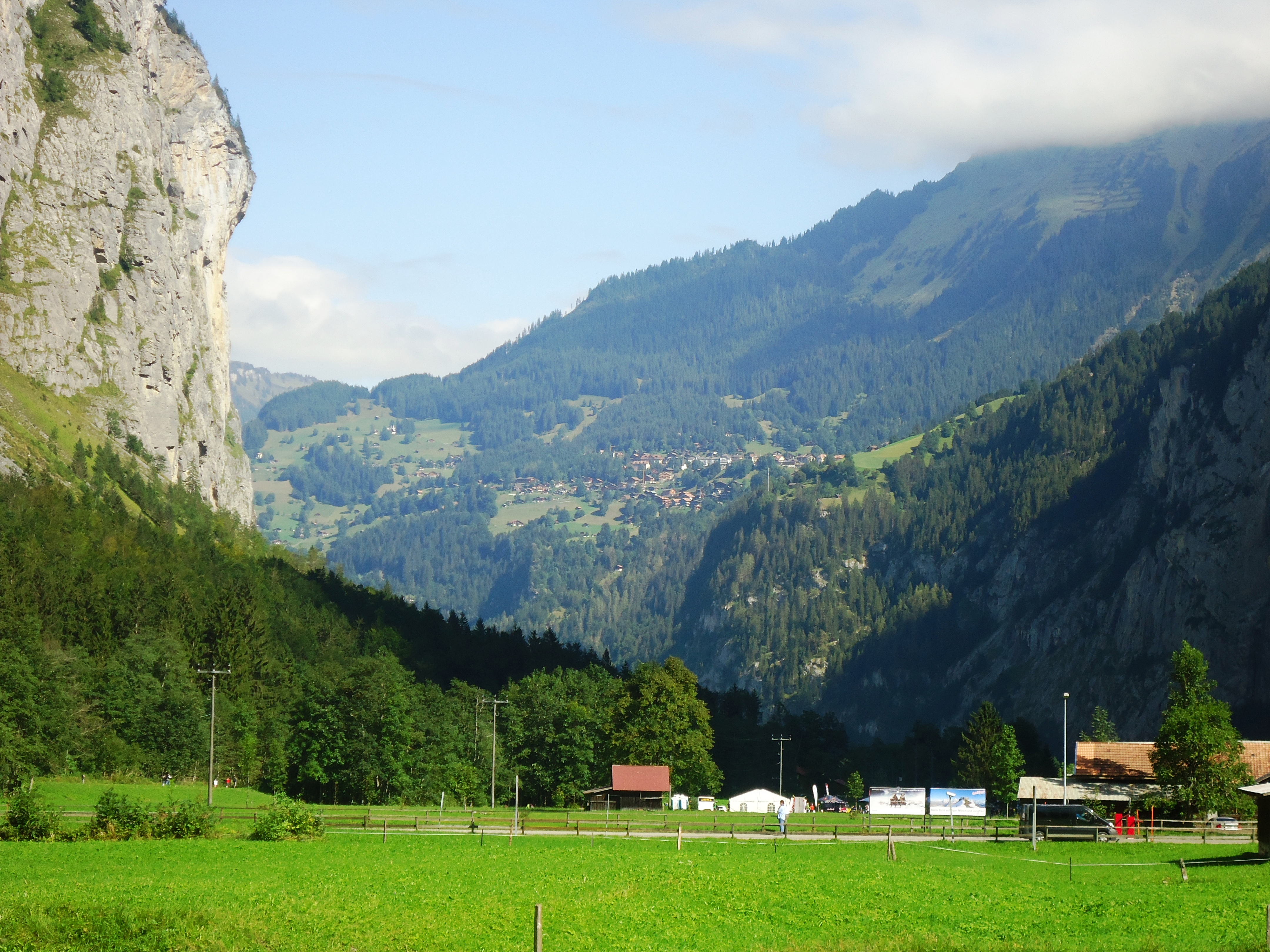 The Alps as seen from the Stechelberg cable car station